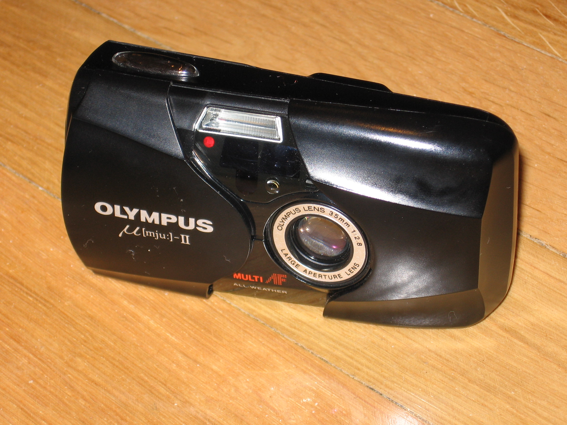 Olympus mju: II Taken by myself. --Ardo Beltz 21:24, 23 January 2006 (UTC)